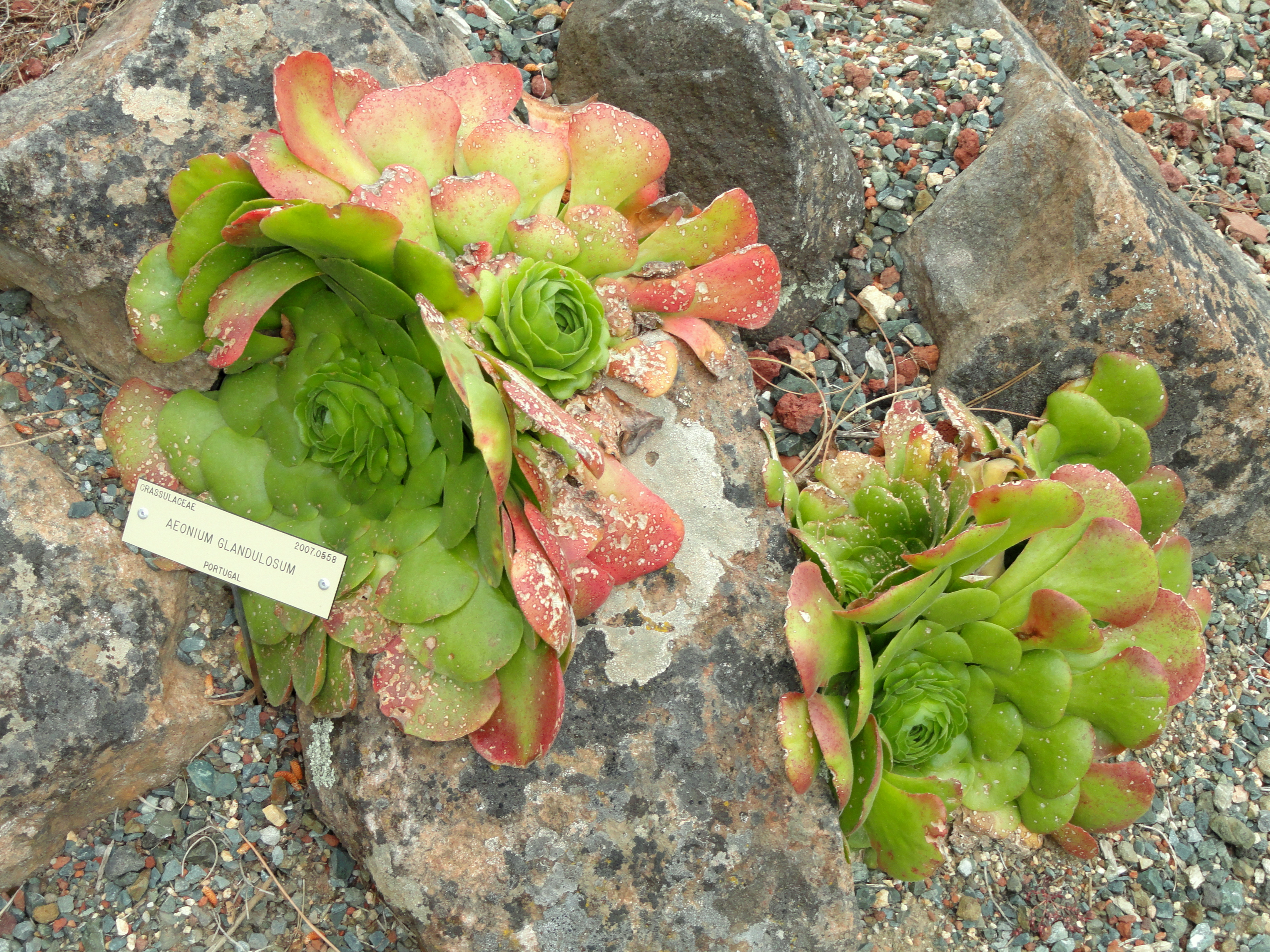 Aeonium glandulosum specimen in the University of California Botanical Garden, Berkeley, California, USA.